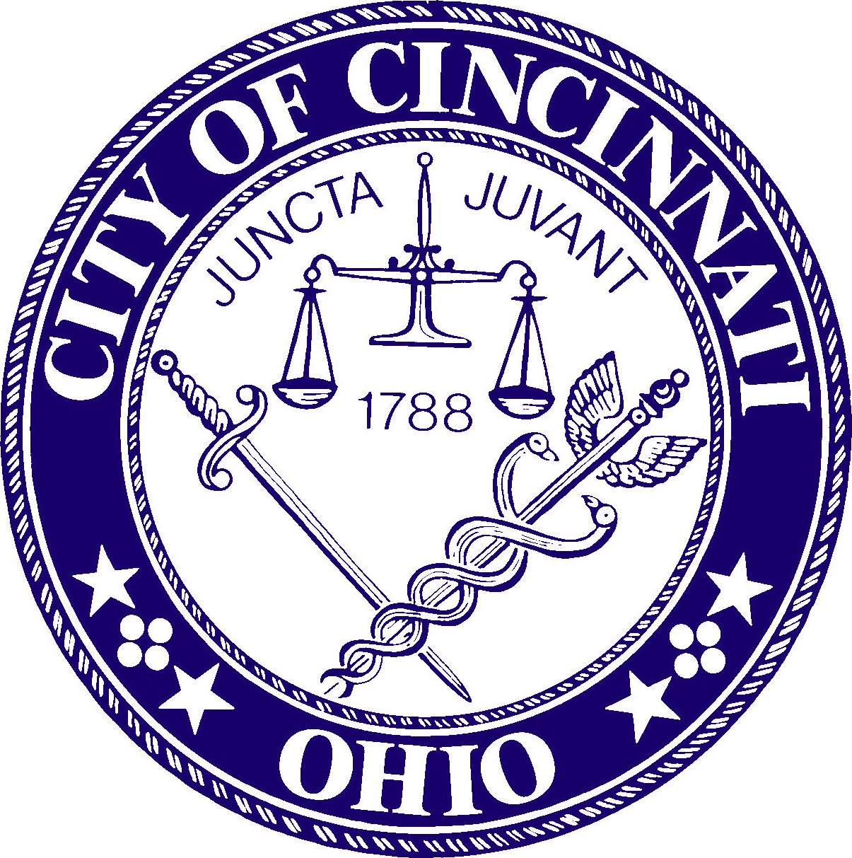 The corporate seal of the City of Cincinnati, Ohio, United States. This version of the seal was in use by 1861. [1]